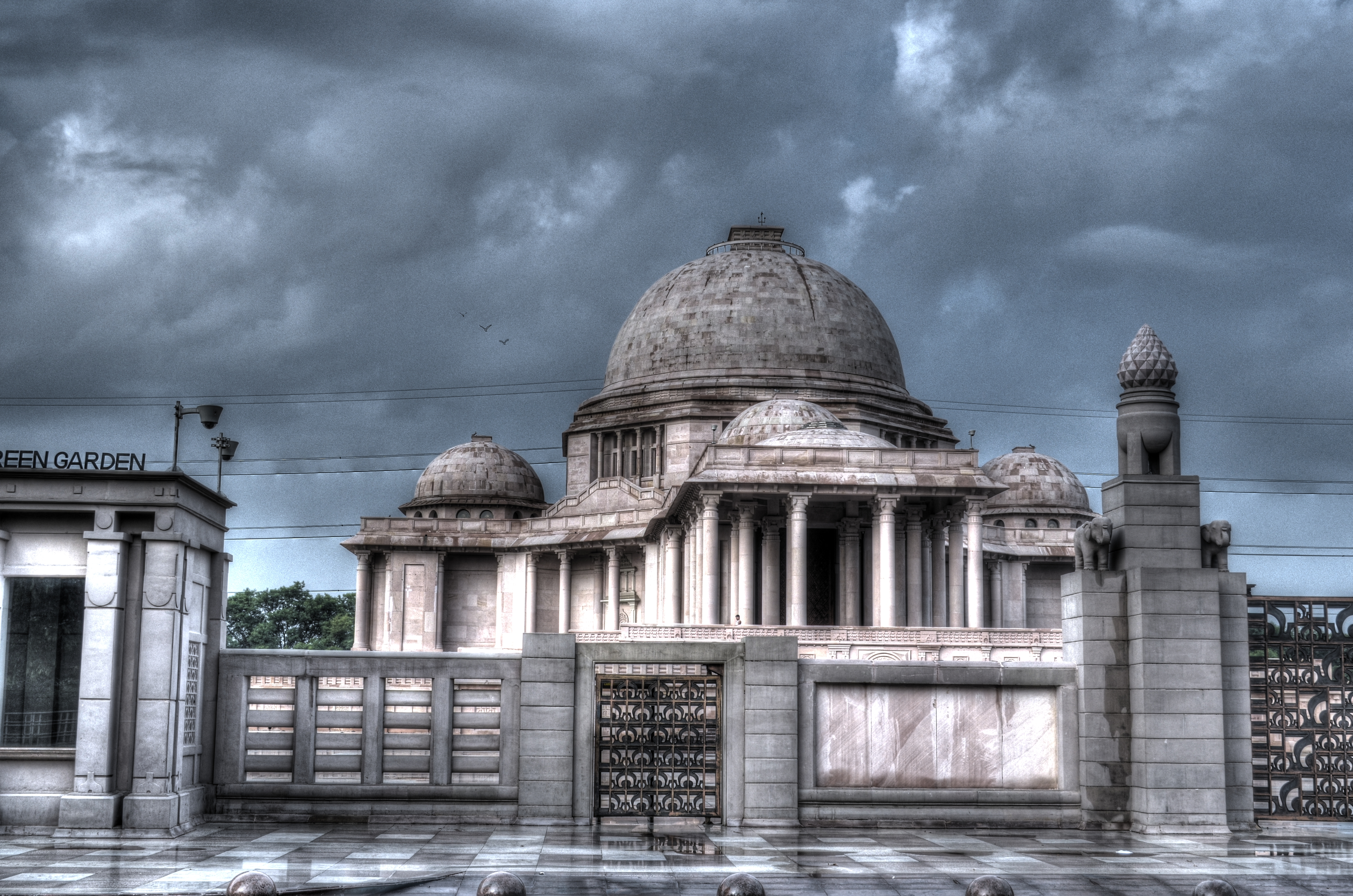 Noida Park or Buddha park or named Noida Dalit Prerna Sthal, Noida